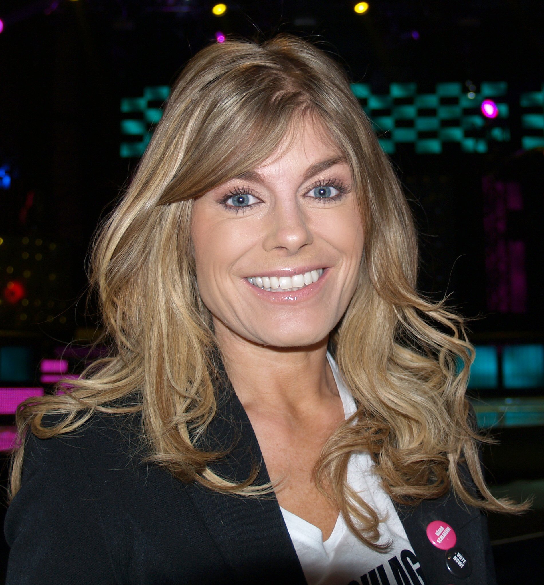 Pernilla Wahlgren at Melodifestivalen 2010.